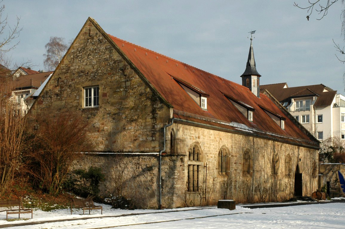 Remainings of the abbey in Lauffen am Neckar.